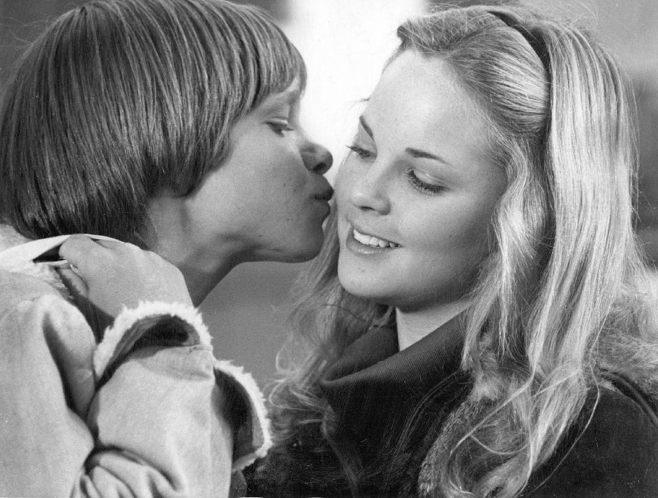 Publicity photo of actor Lance Kerwin and actress Melissa Sue Anderson promoting the NBC television film James at 15, which aired Monday September 5, 1977 and also served as the pilot for the subsequent series.